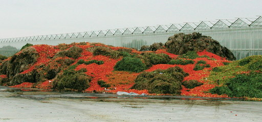 Rotten tomatoes. Overripe tomatoes on a compost heap provide an unexpected splash of colour on an otherwise grey day. Seen from the public footpath behind nurseries to the east of Keyingham village, East Riding of Yorkshire, England.